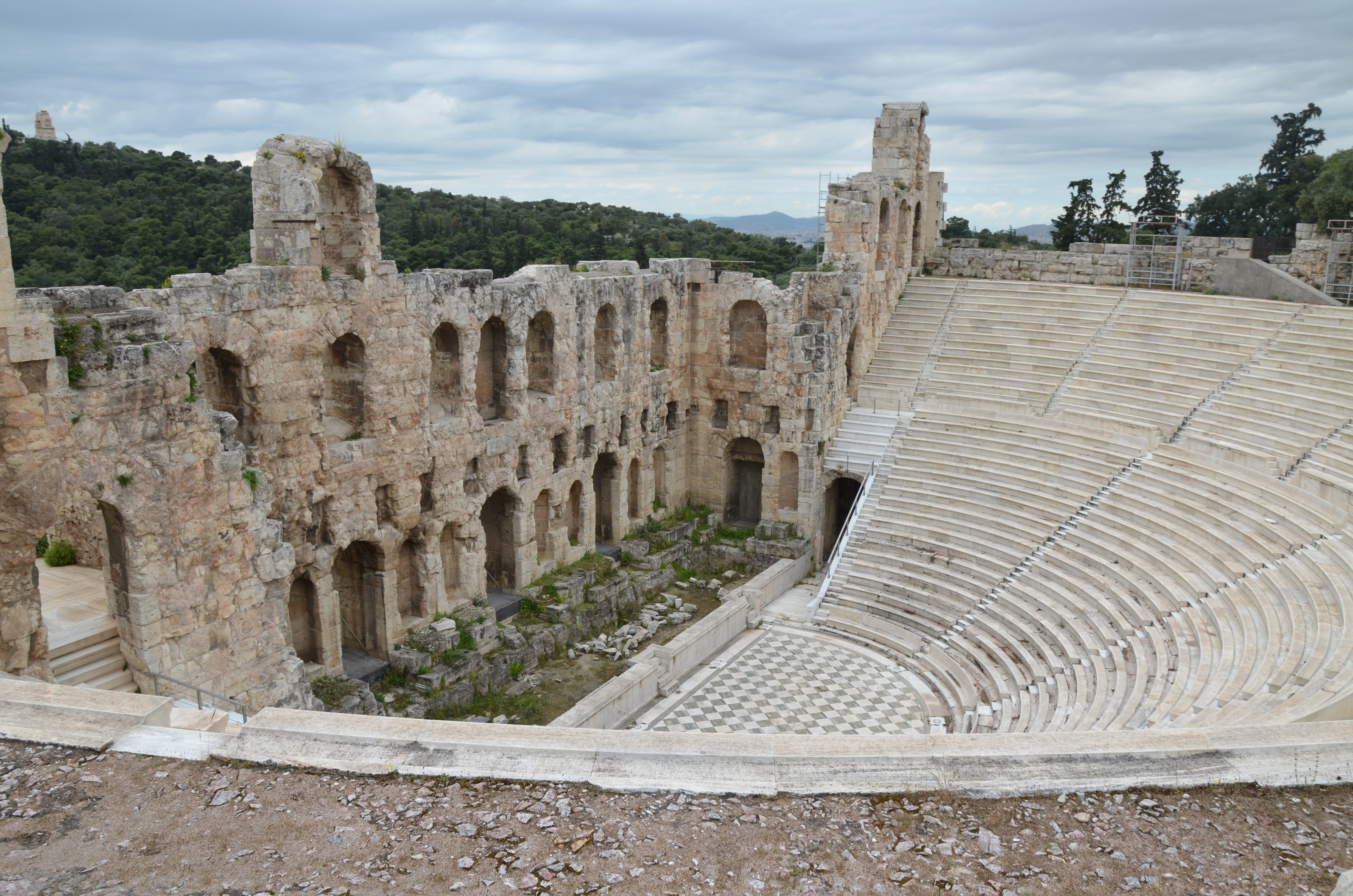 Odeon of Herodes Atticus, built in 161 AD on the south slope of the Acropolis of Athens in memory of his wife Annia Regilla, Athens, Greece